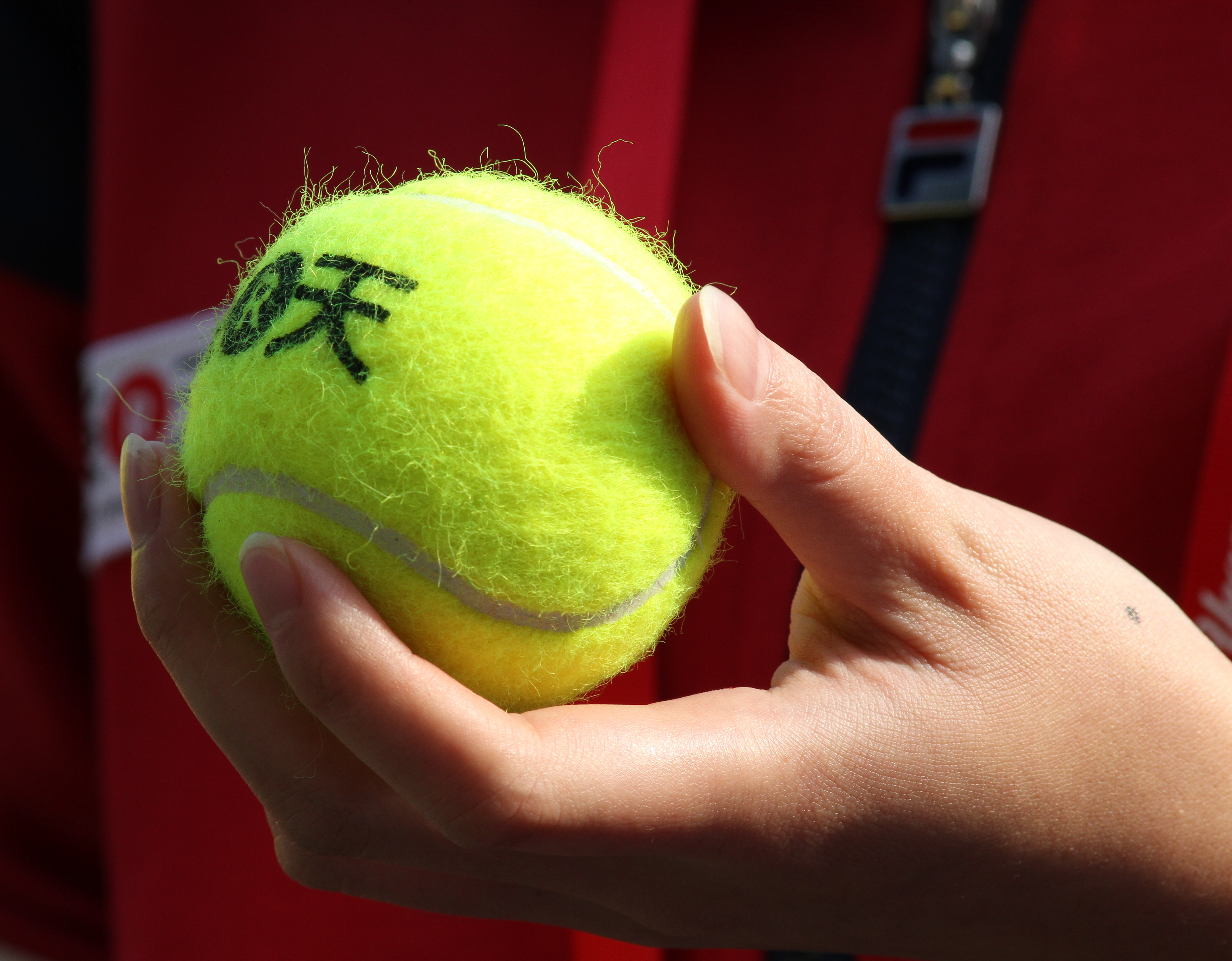 Tennis ball is held in hand during 2011 Japan Open